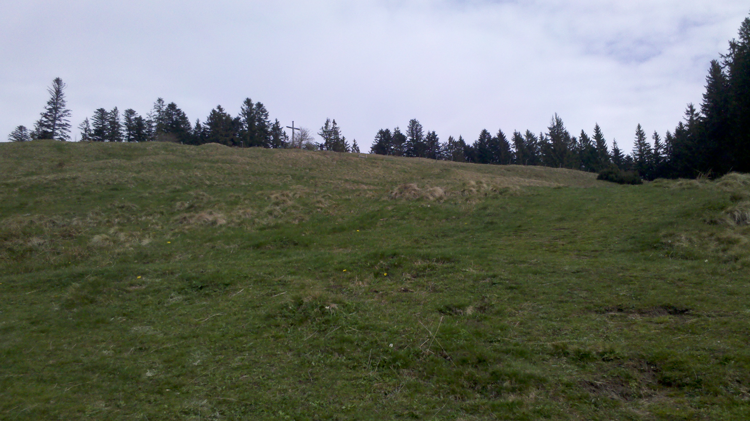 Holzer Alm Summit